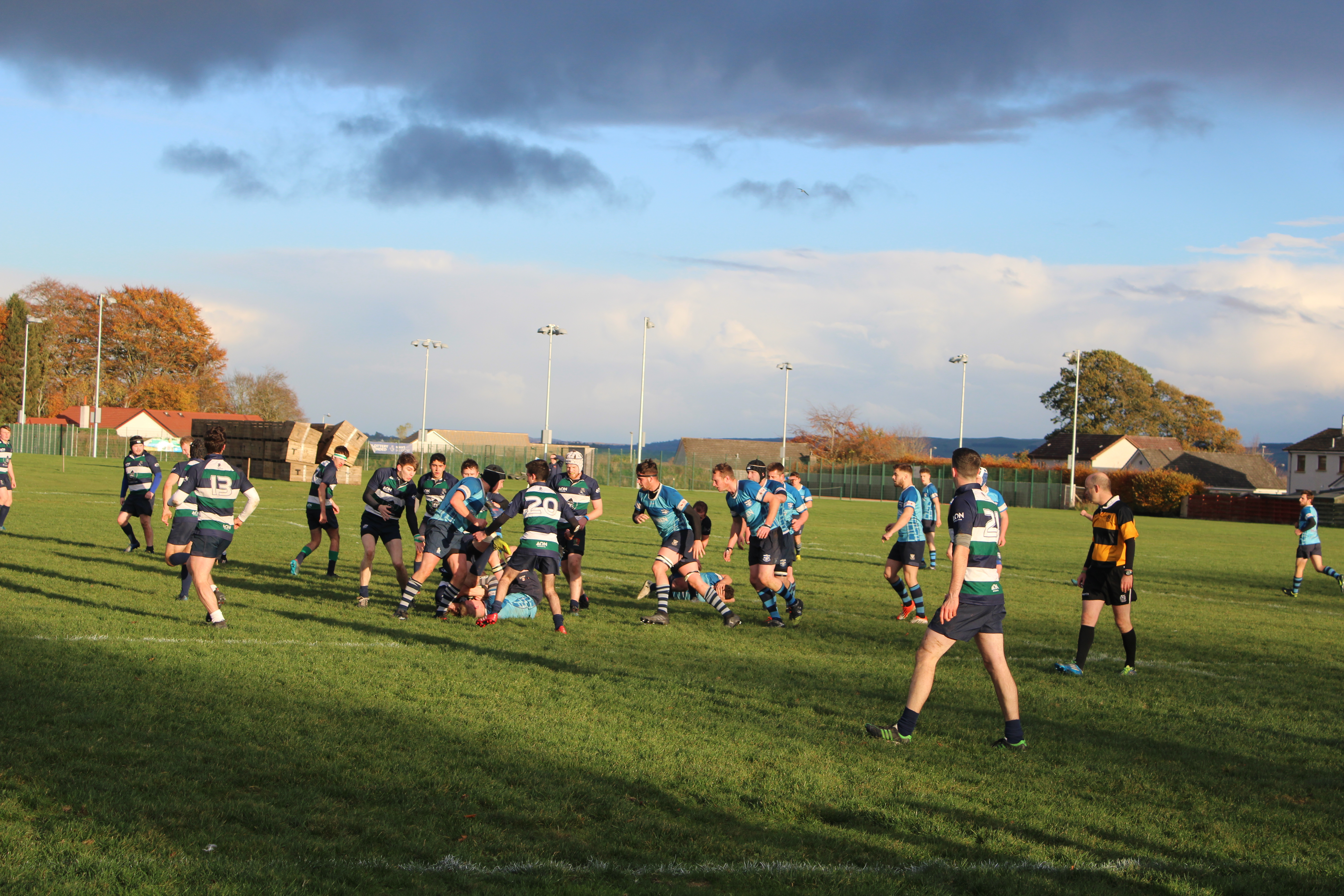 Rugby match - Blairgowrie RFC vs Dundee Medics RFC - JJ Coupar Recreational Park - October 2018